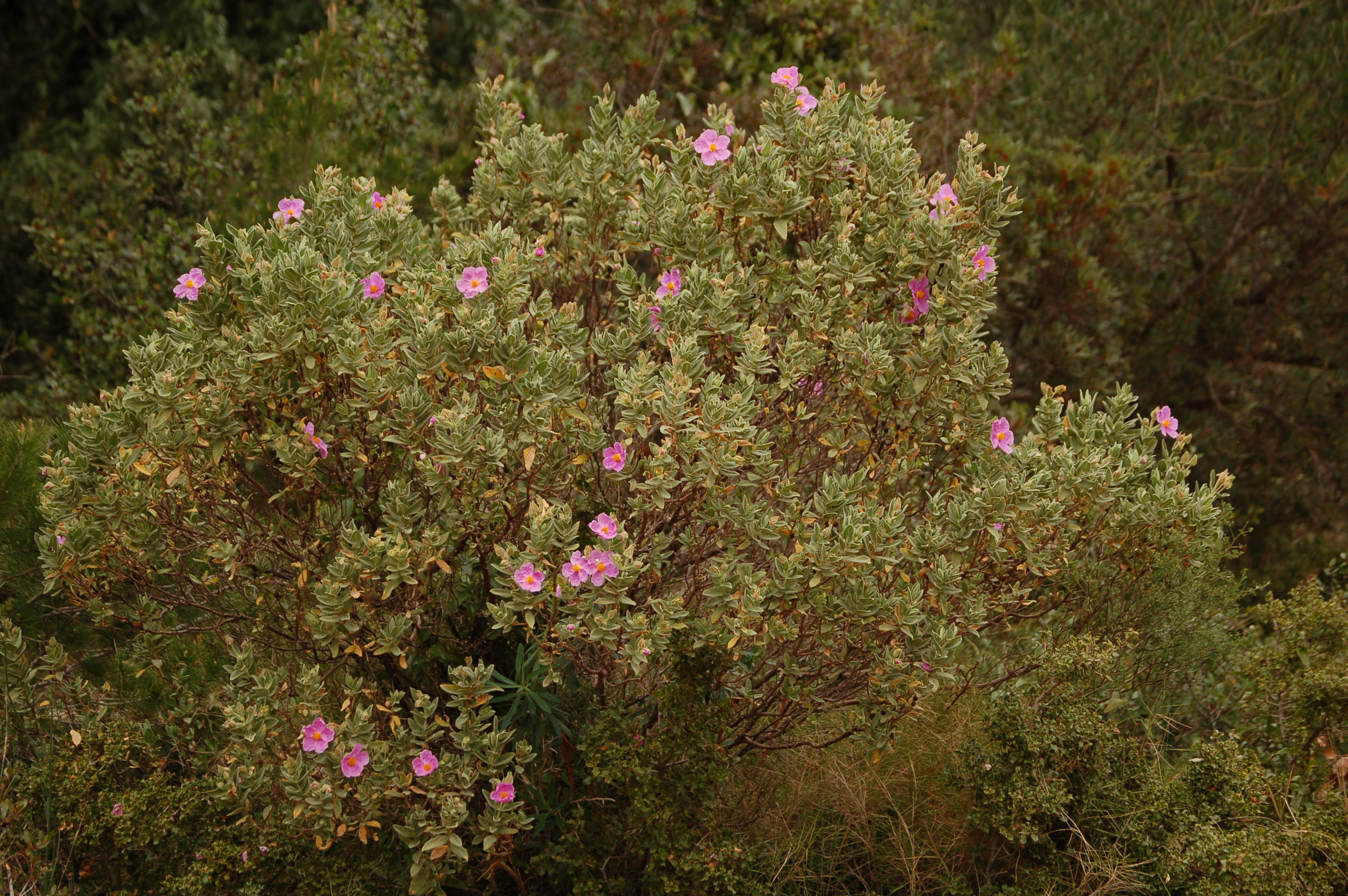 Cistus albidus in Toulon (Var, France).